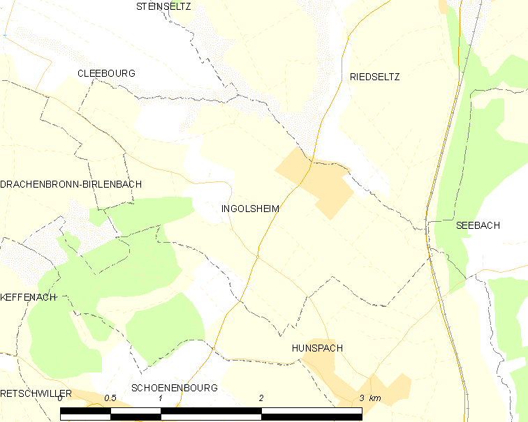 Map of French municipality